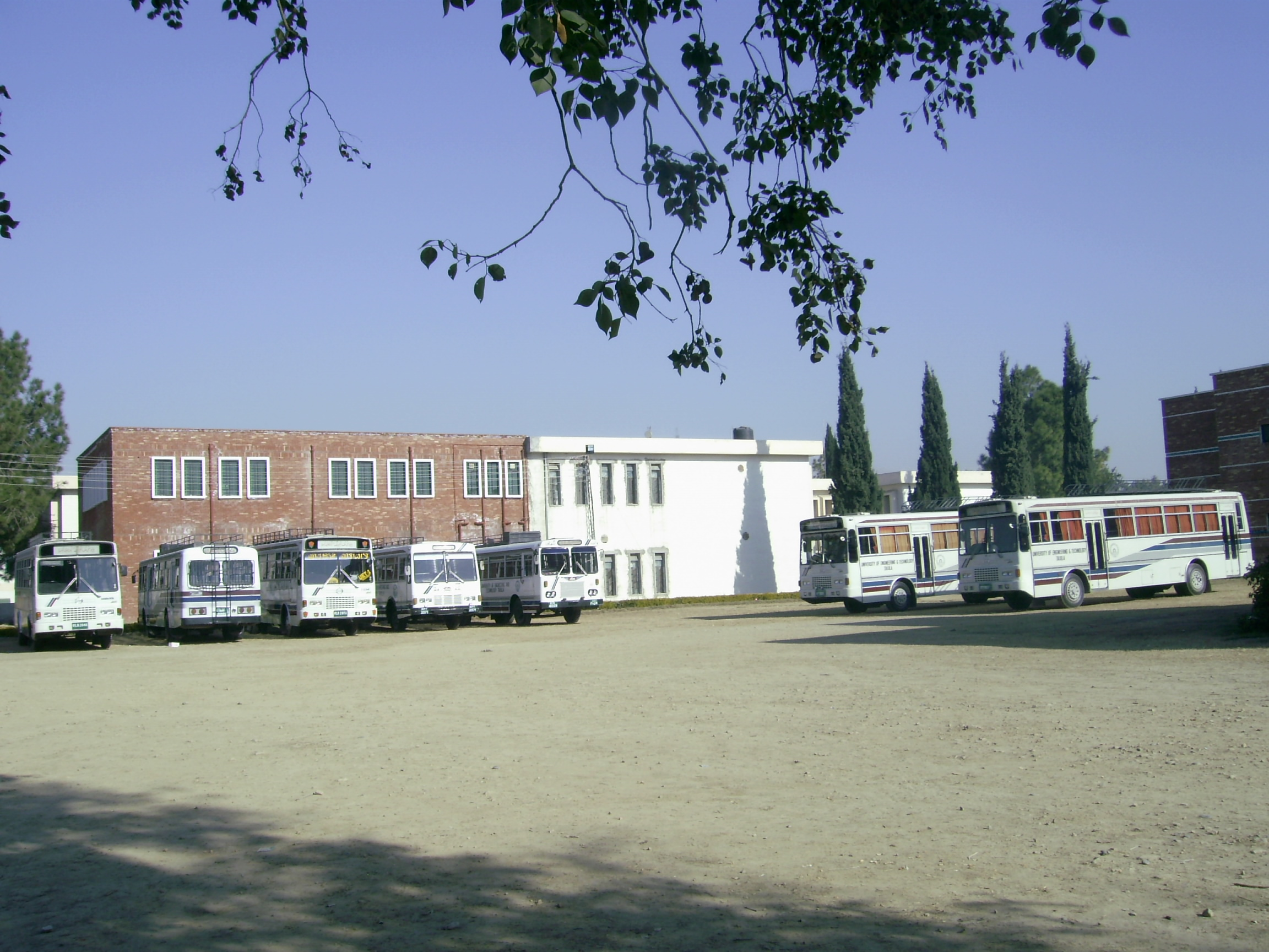 Bus parking lot at the University of Engineering and Technology